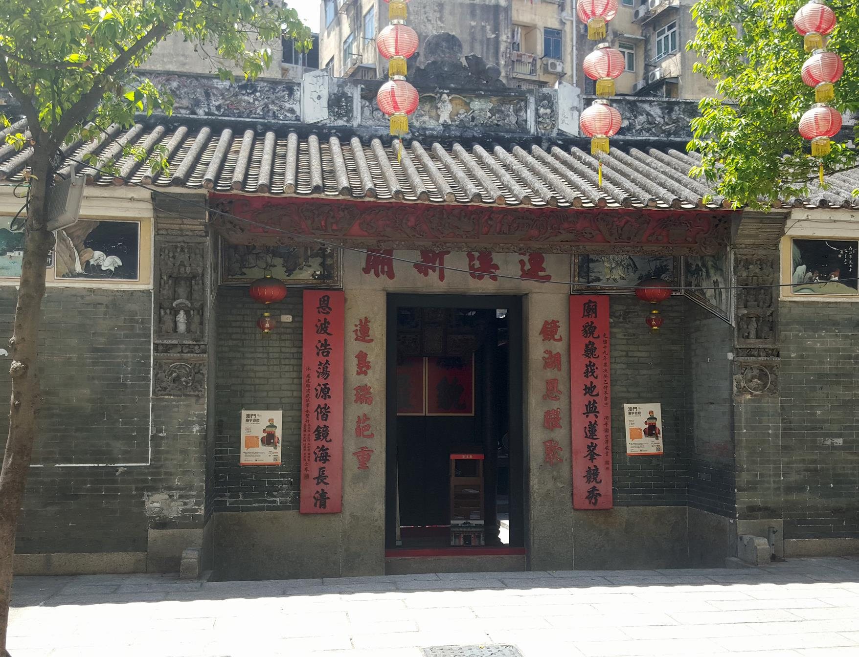 Lin Kai Temple